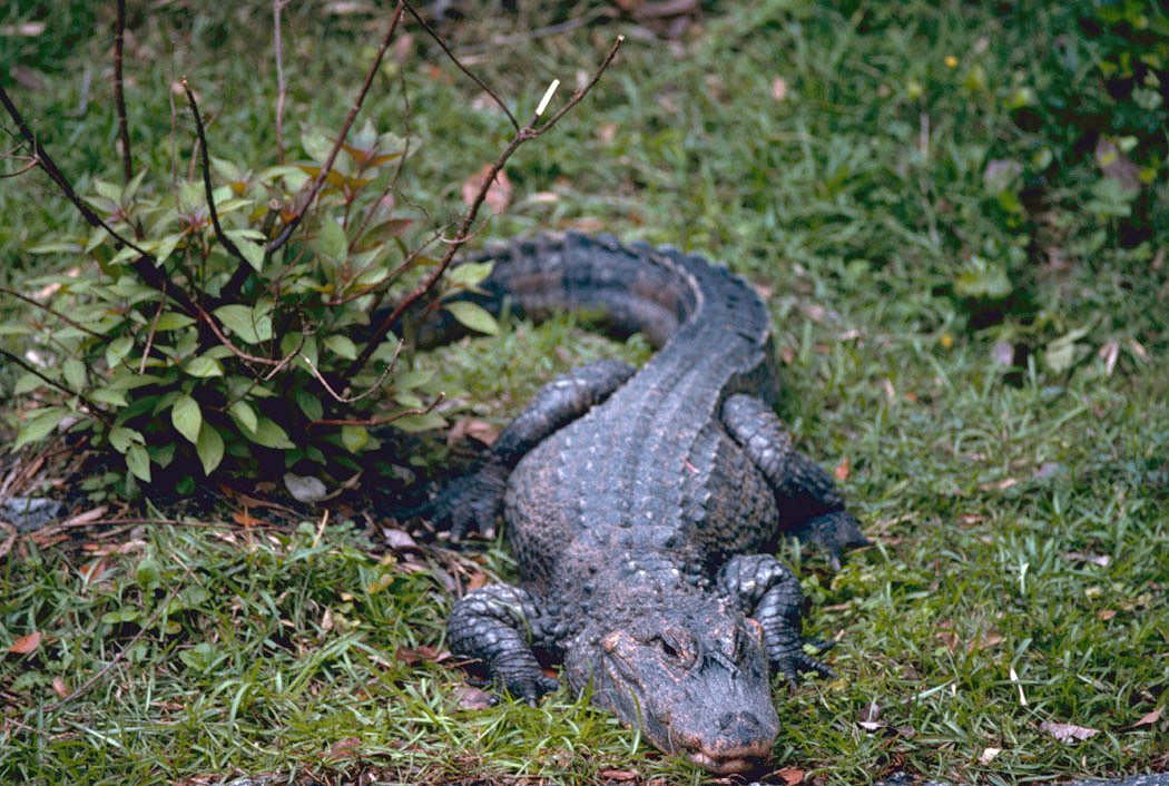 Chinese Alligator (Alligator sinensis)